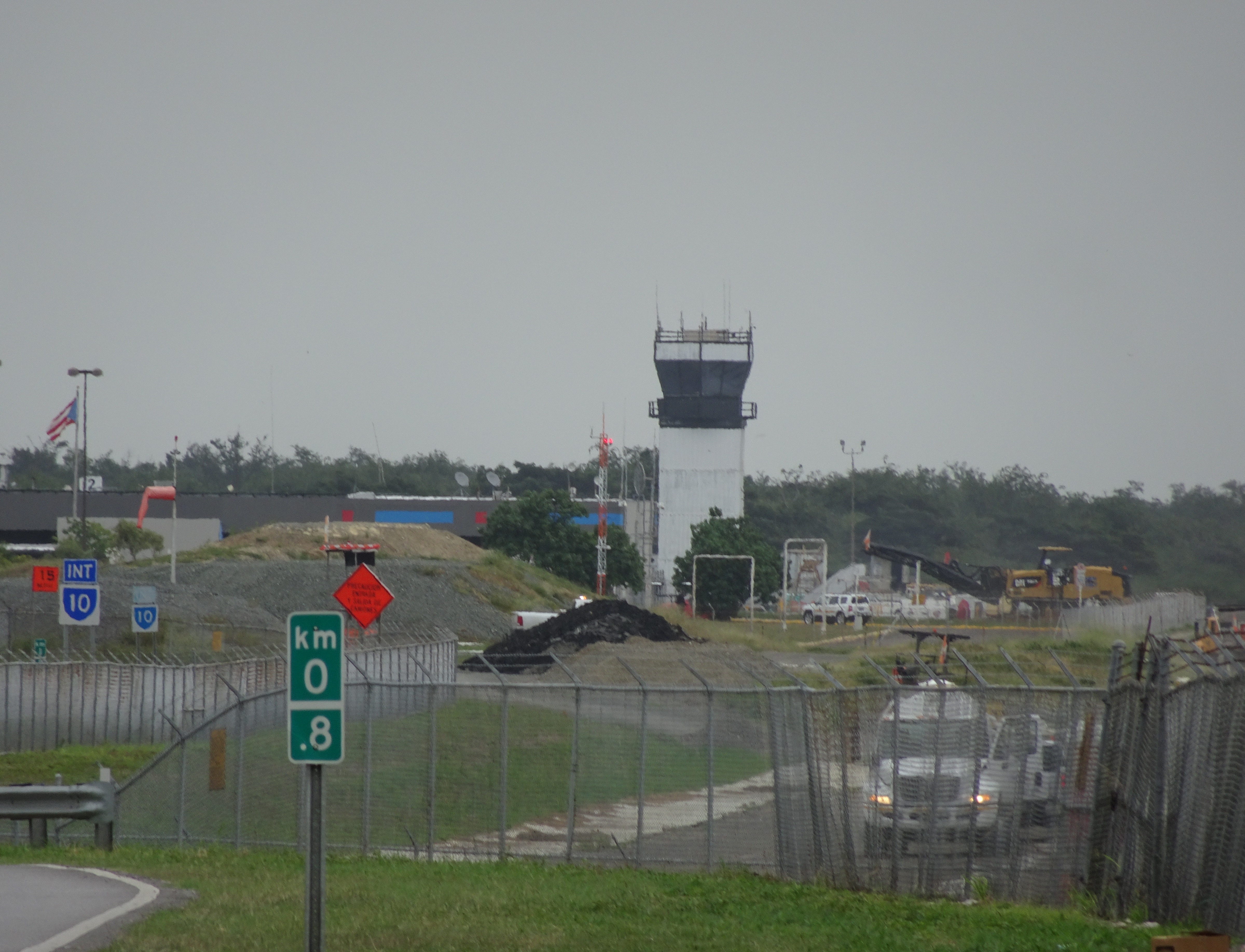 Torre de control del Aeropuerto Internacional Mercedita, Bo. Vayas, Ponce, PR, visto desde la PR-5506, mirando al este (DSC02387B)